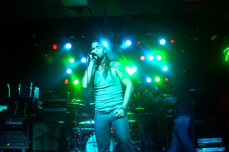 Atom Smash performing at Piere's Entertainment Center in Fort Wayne, Indiana on September 11, 2009.